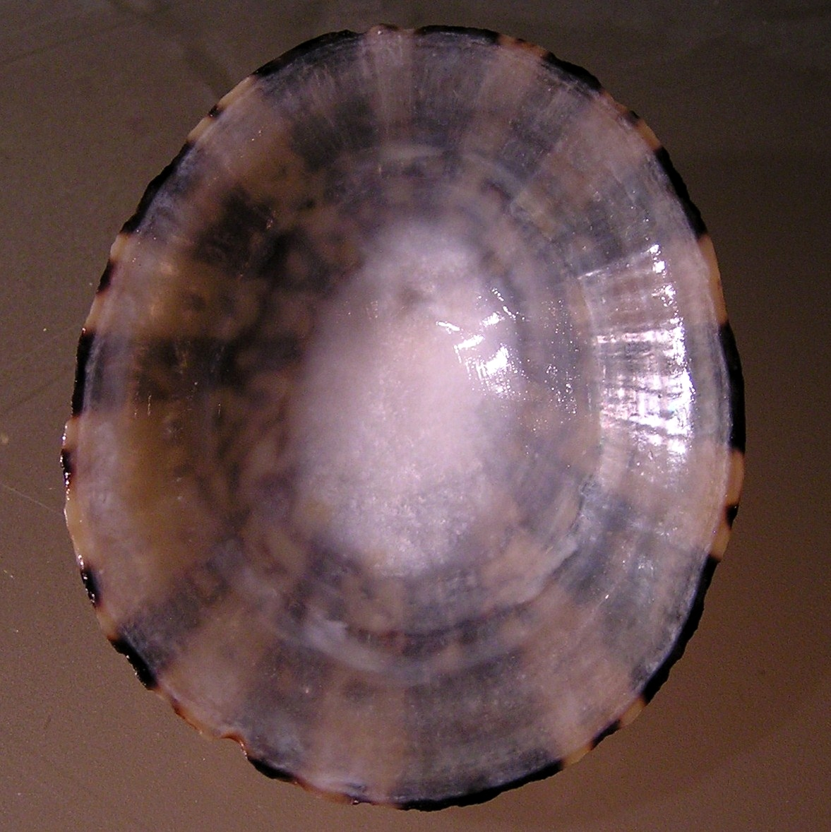 Cellana testudinaria (Linnaeus, 1758), a limpet from the family Nacellidae; Philippines